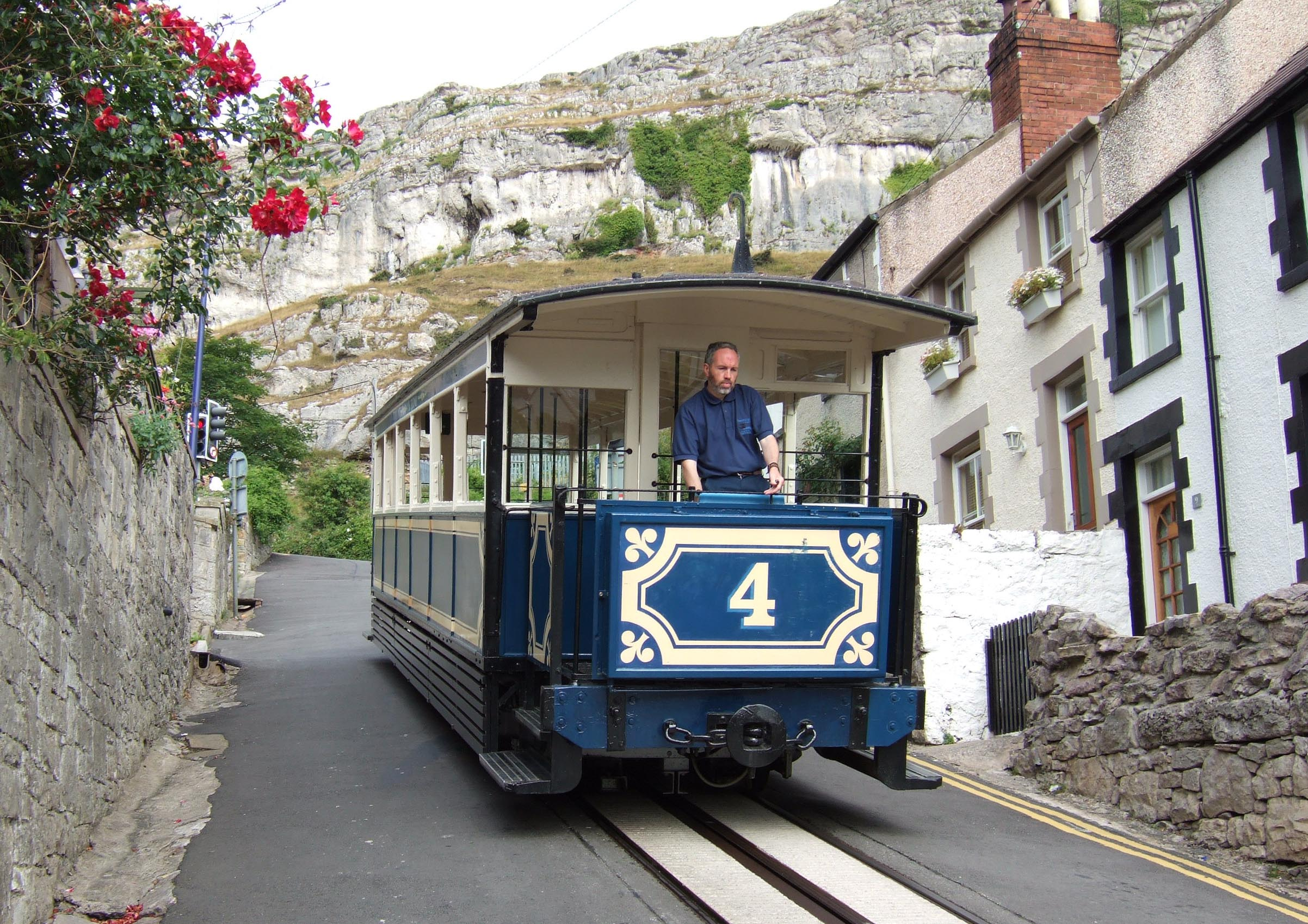 Great Orme Tramway Tram No.4 Descending. 25th September 2005 Photographer - A.M.Hurrell Camera - Fuji FinePix F10 Modified - Trimmed and file size reduced using Adobe Photoshop 5.0LE